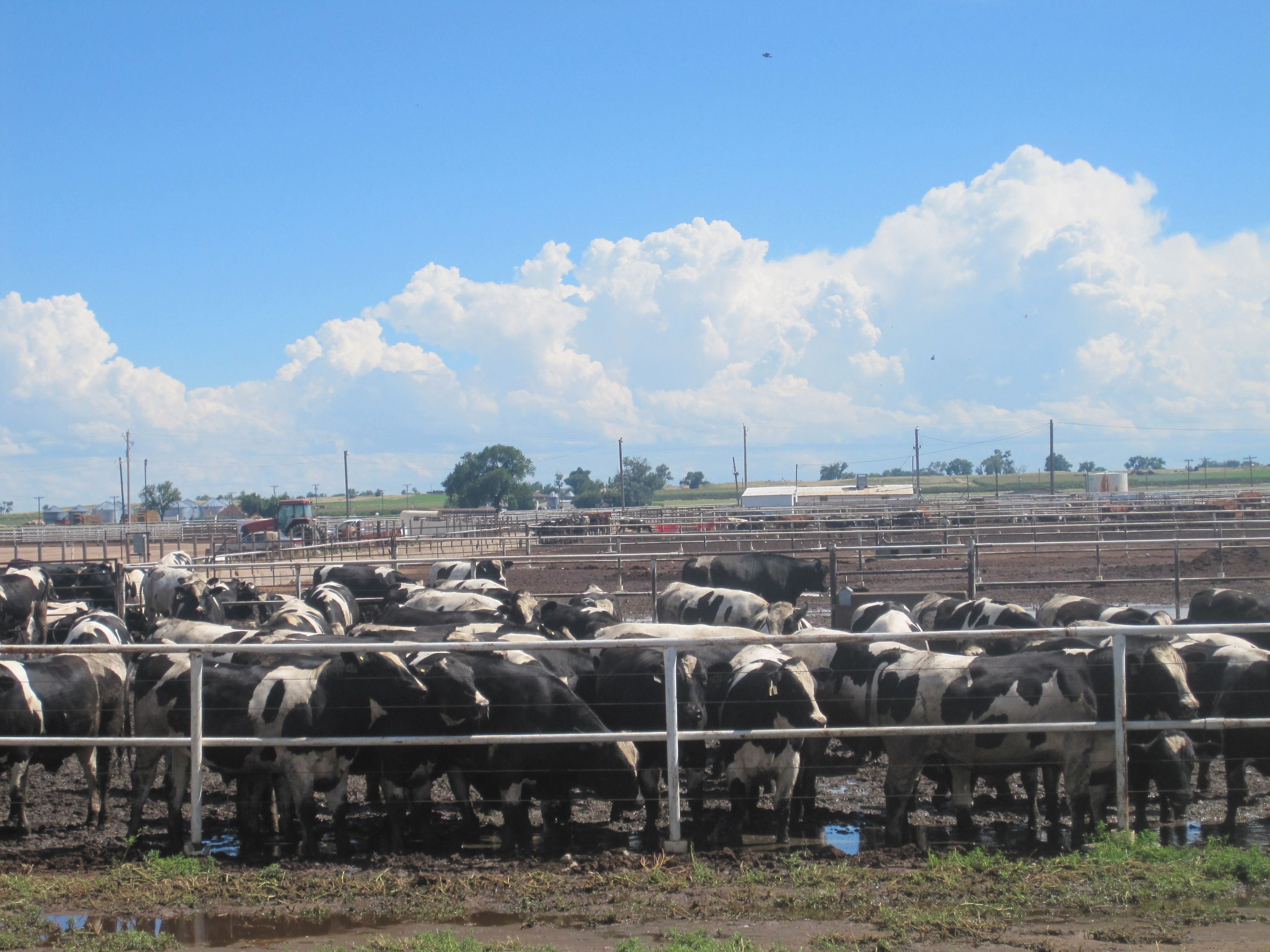 I took photo with Canon camera near Rocky Ford, CO.